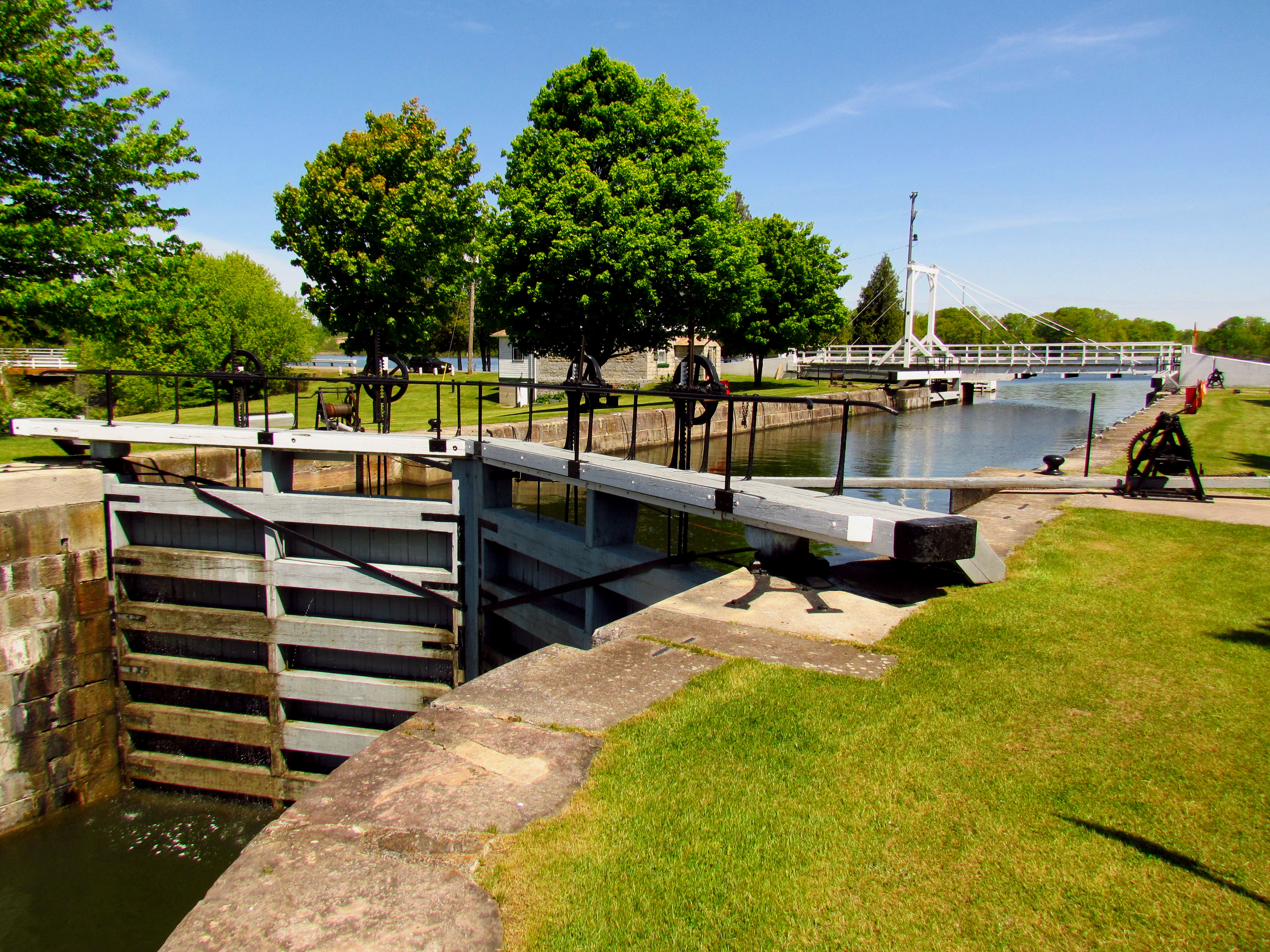 Lower Brewers Lock (#45), Rideau Canal, Ontario, Canada